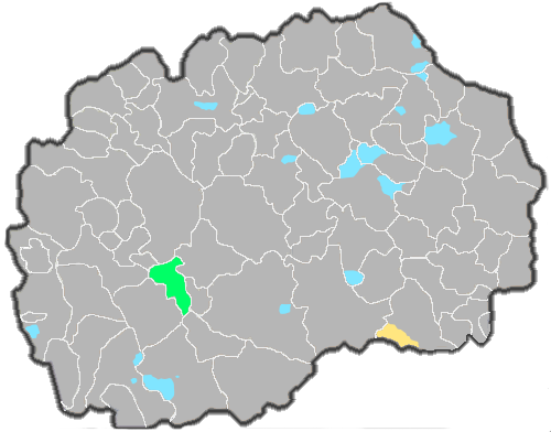 Where Aromanians are an officially recognised minority group Areas where Aromanians are concentrated Areas where Megleno-Romanians are concentrated